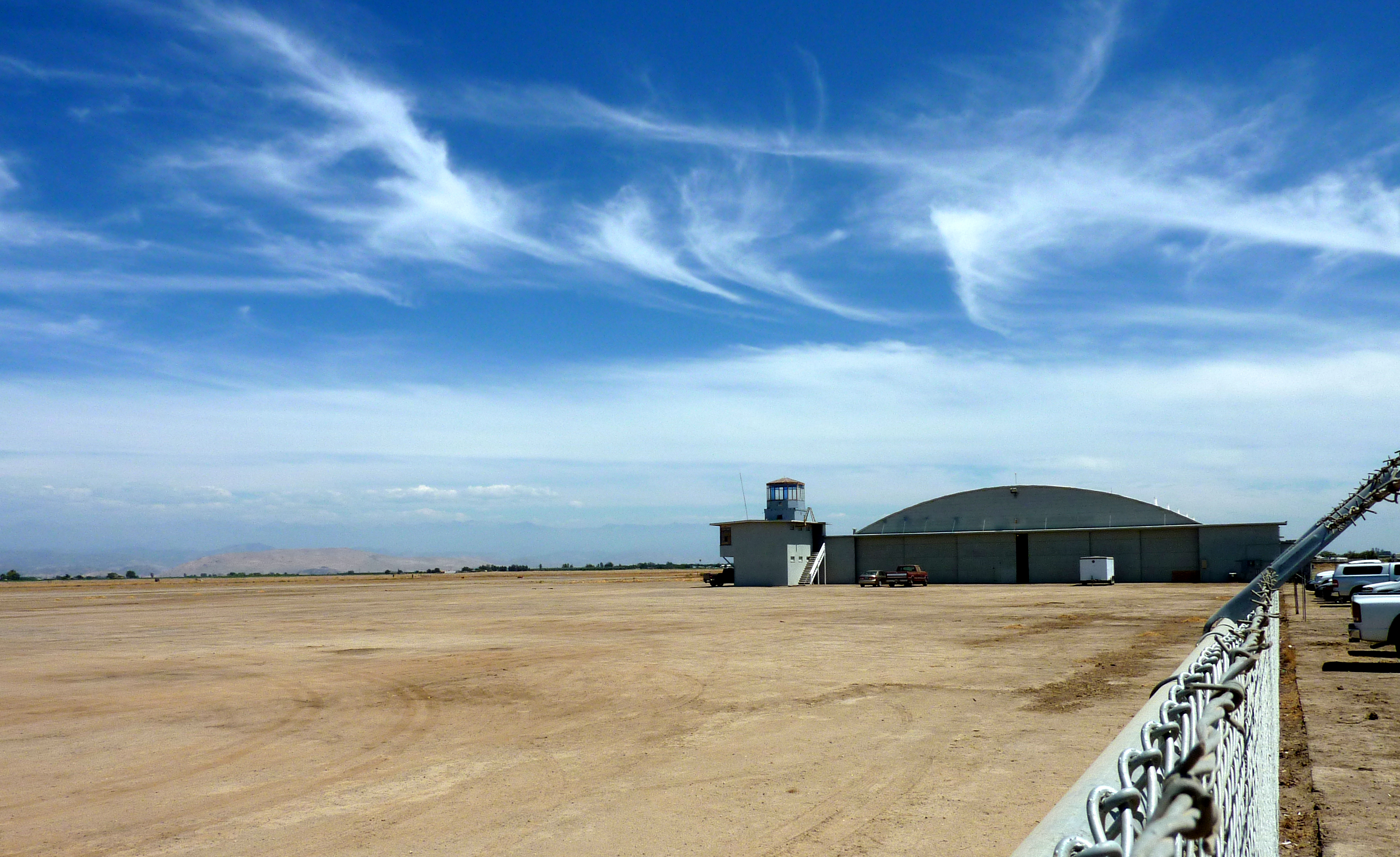 Hanger at Sequoia Field Airport — north of Visalia in Tulare County, central California. Housed the Visalia-Dinuba School of Aeronautics during WW II. On the National Register of Historic Places in Tulare County.